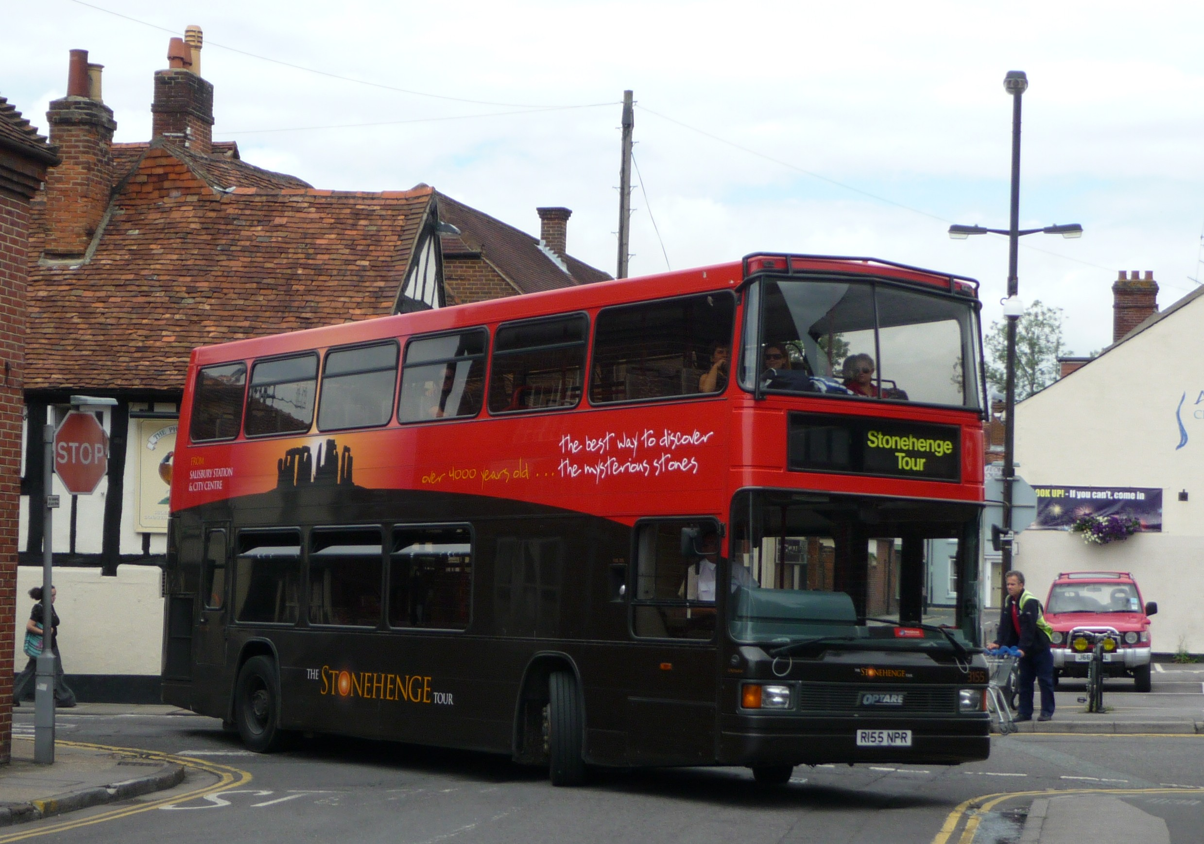 Wilts & Dorset 3155 (R155 NPR), a DAF DB250/Optare Spectra, turning from Salt Lane into Rollestone Street, Salisbury, Wiltshire, on the Stonehenge Tour. It is wearing the new livery for the service.